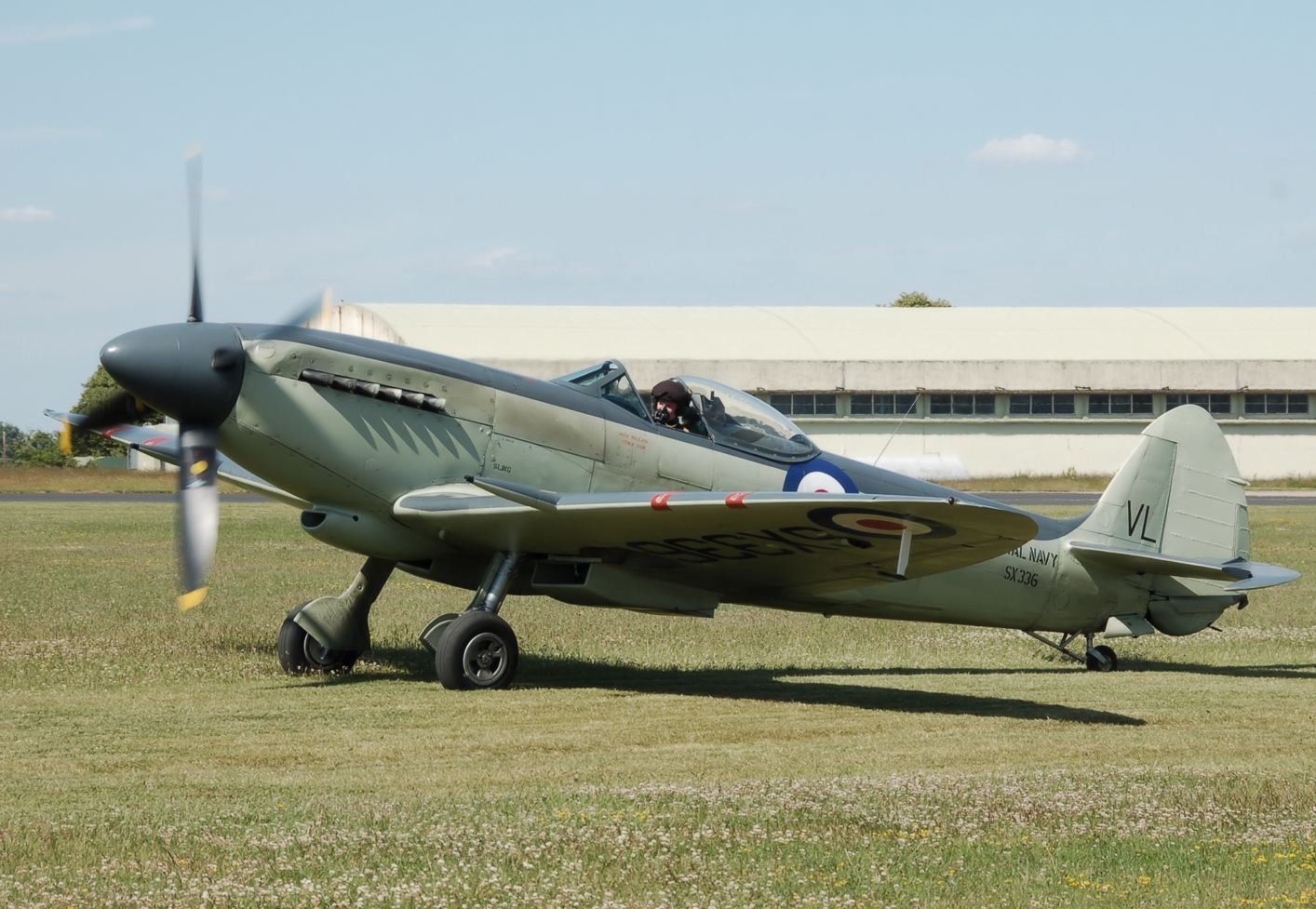 Royal Navy Supermarine Seafire SX336, model F.XVII, civil registration G-KASX taxis at the Cotswold Air Show at Cotswold Airport, Kemble, Gloucestershire, England.